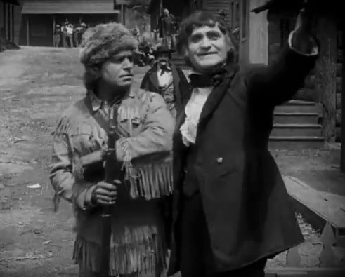 Douglas Fairbanks (left) and Frank Brownlee (aka Frank Brown Lee) in The Half-Breed - cropped screenshot